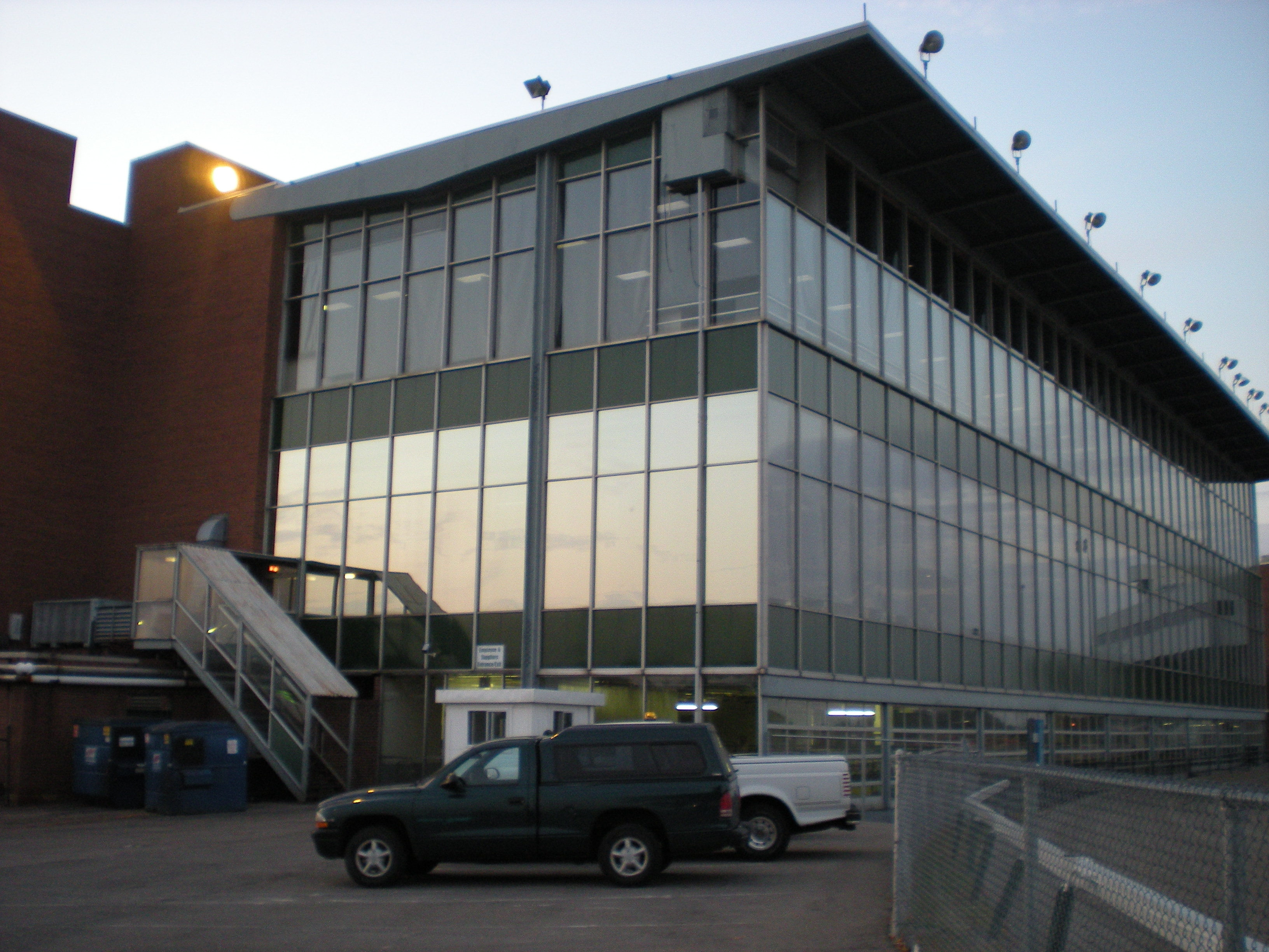 Building.